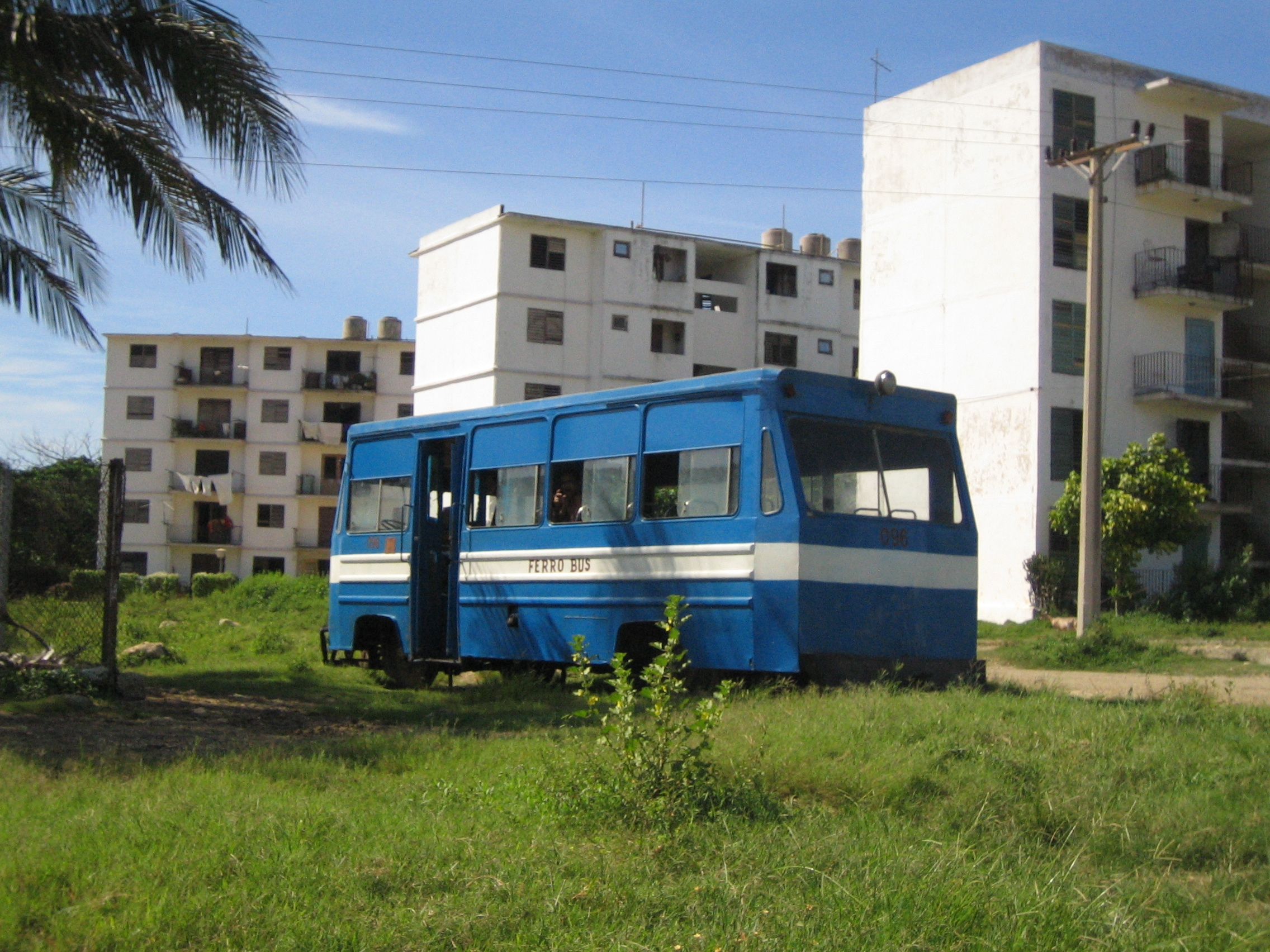 Ferro Bus author: Gerhard Mißbach date: 23.09.2005 15:34 location: in Levisa near Mayari, Cuba